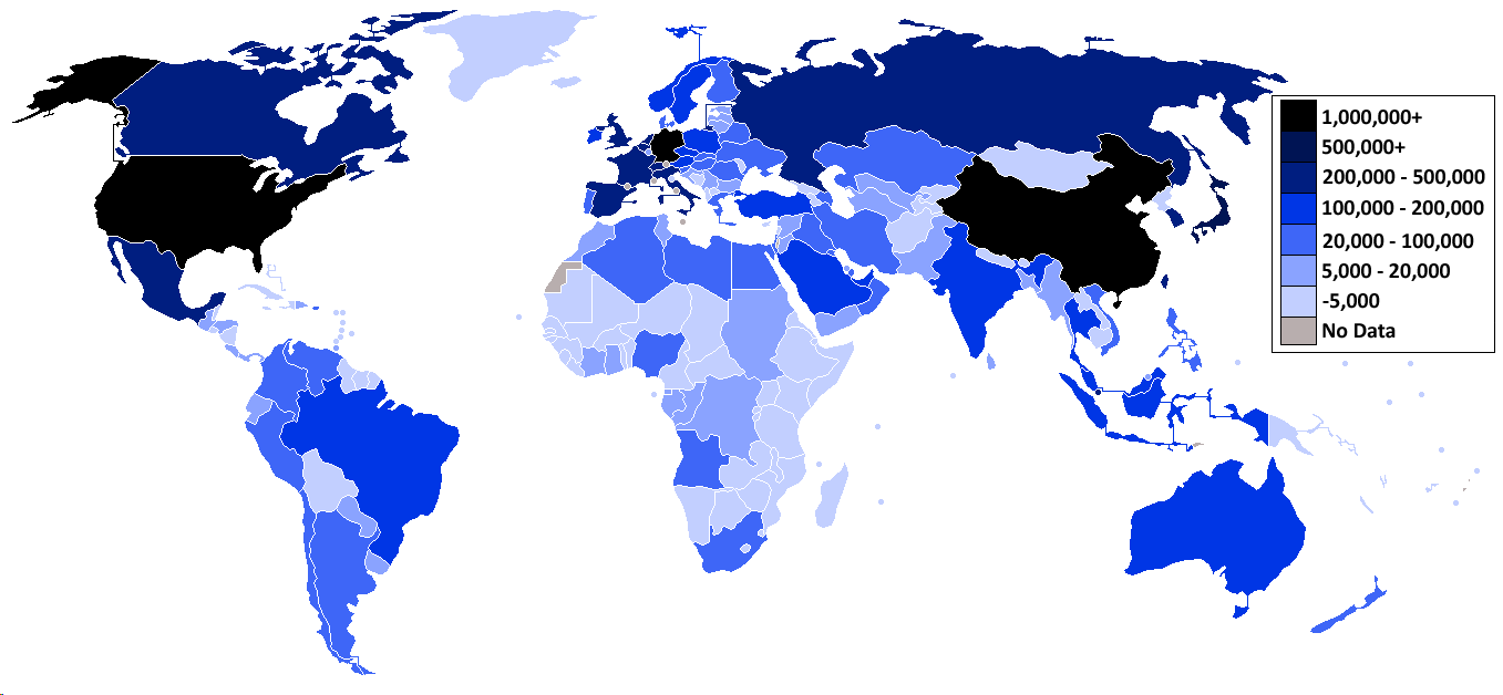 Exports in millions of dollars, as listed on CIA factbook accessed April 2006.